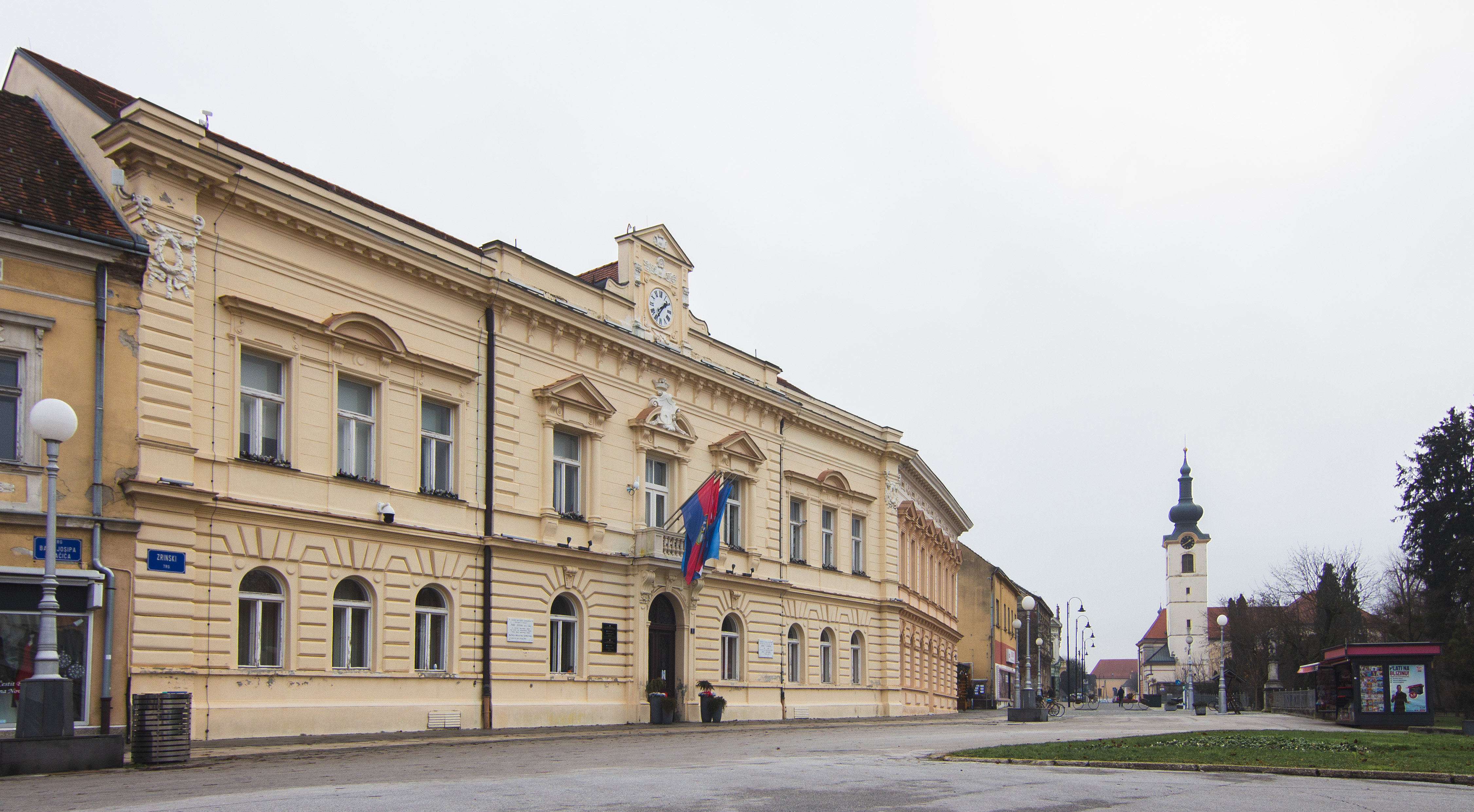 Photo of Koprivnica main square buildings